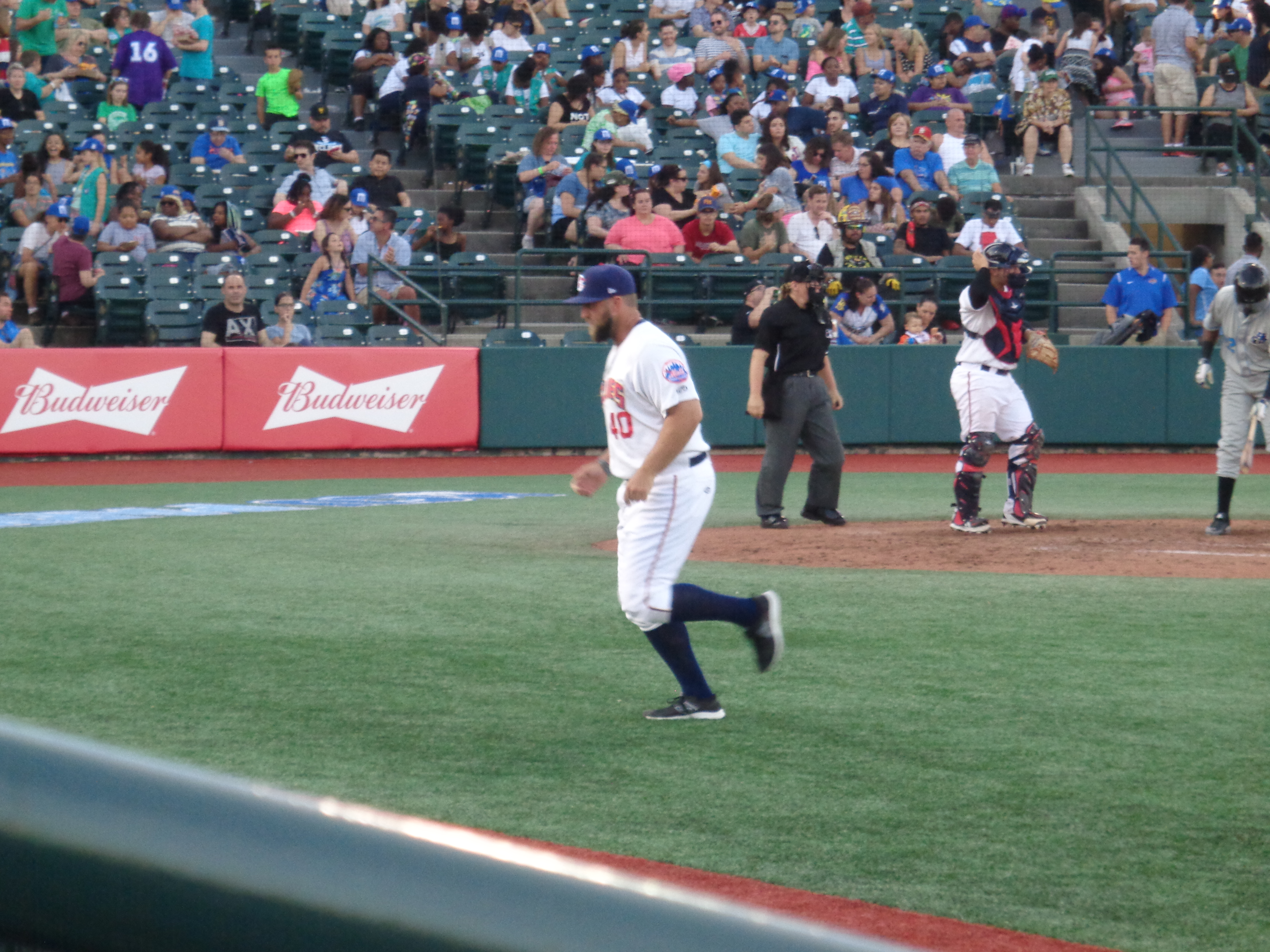 Brooklyn Cyclones pitching coach and former Major League pitcher Royce Ring walks off the field during the fifth inning of the Cyclones game against the Hudson Valley Renegades on June 24, 2017.